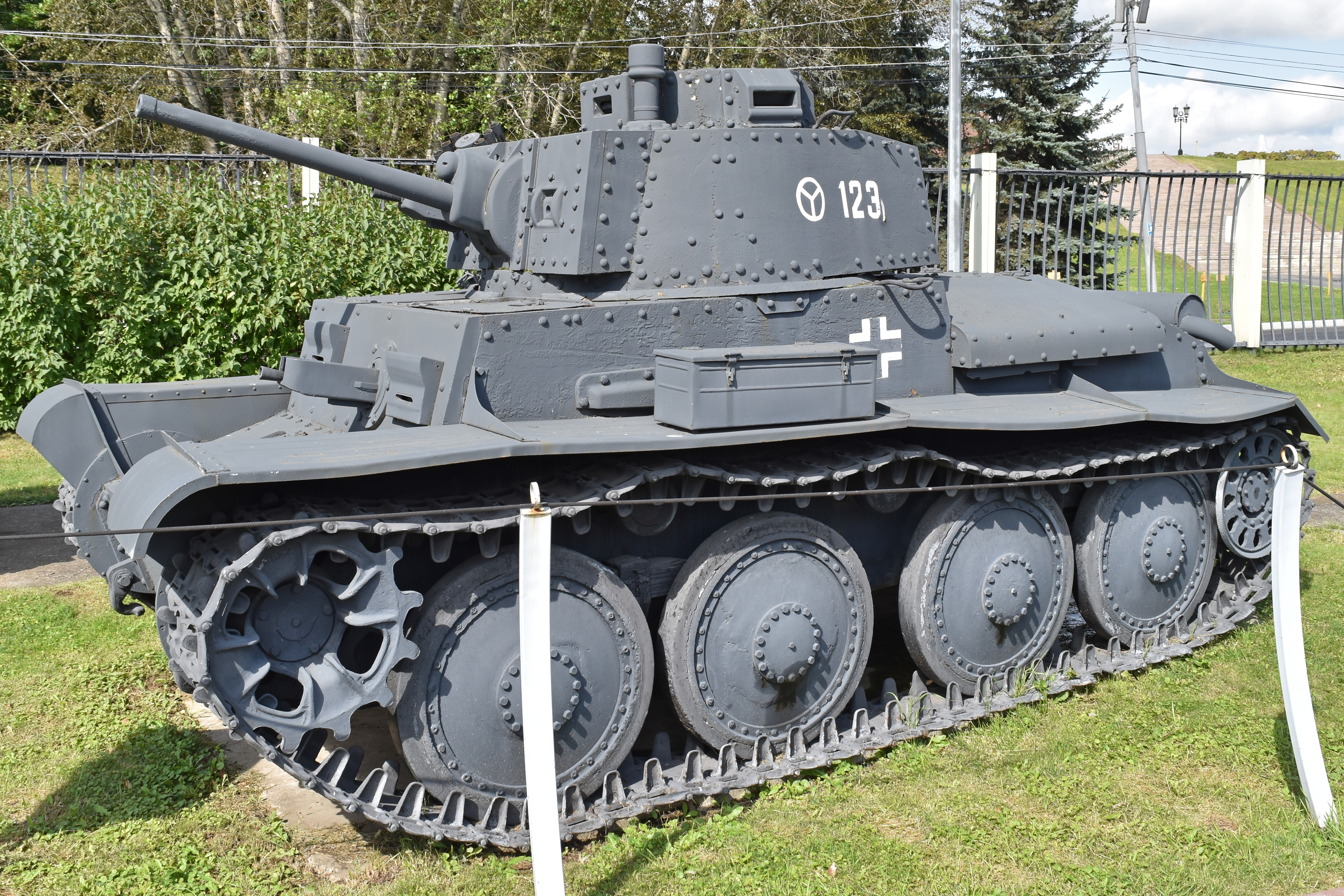 Czechoslovakian WW2 era Light Tank Official designation:- Sd.Kfz.140, Lehký tank vzor 38, Light Tank model 38, Panzerkampfwagen 38(t). Designer & Manufacturer:- ČKD Built:- 1939 to 1942. Total Production:- 1,414 Main Armament:- 37mm KwK 38(t) L/47.8 Quoting from the excellent :- “This German LT-38 was found in dense forest in the Novgorod region by a local and had probably been abandoned there by German forces during the war. It was confiscated by militiamen who found a buyer from one of the Baltic republics and prepared it for illegal export to Germany. Customs officers in Saint Petersburg opened the container (marked ‘scrap iron’), discovered the tank and seized it. It was restored in the workshops at Kubinka before being transferred here”. On display in ‘Victory Park’, Museum of the Great Patriotic War, Poklonnaya Hill, Moscow, Russia. 26th August 2017